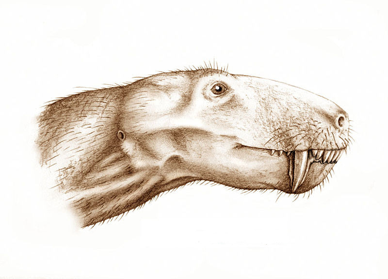 Sauroctonus parringtoni